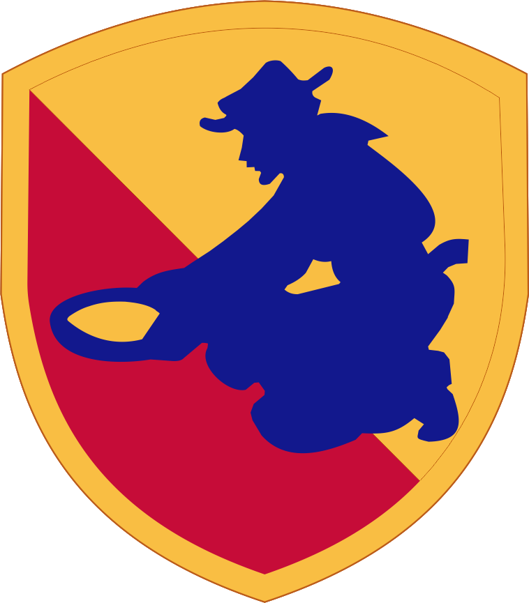 Description/Blazon On a shield 2 1/2 inches (6.35 cm) in width and 2 7/8 inches (7.30 cm) in height divided per bend yellow and red with a 1/8 inch (.32 cm) yellow border, a blue silhouette of a prospector kneeling and panning gold. Symbolism The shape of the shield has been adopted from the vigilante shield, symbol used by various vigilante organizations during early California history. The prospector is reminiscent of the "days of 49" when the discovery of gold in Northern California, present area of the Division, instigated the gold rush, bringing about the necessity for vigilante and other organizations, forerunners of the present California Army National Guard. The colors, red and yellow signify the early Spanish history of the State of California. Blue and gold (yellow) are the traditional colors of the State of California. Background The shoulder sleeve insignia was approved on 5 July 1949. (TIOH Dwg. No. A-1-113)